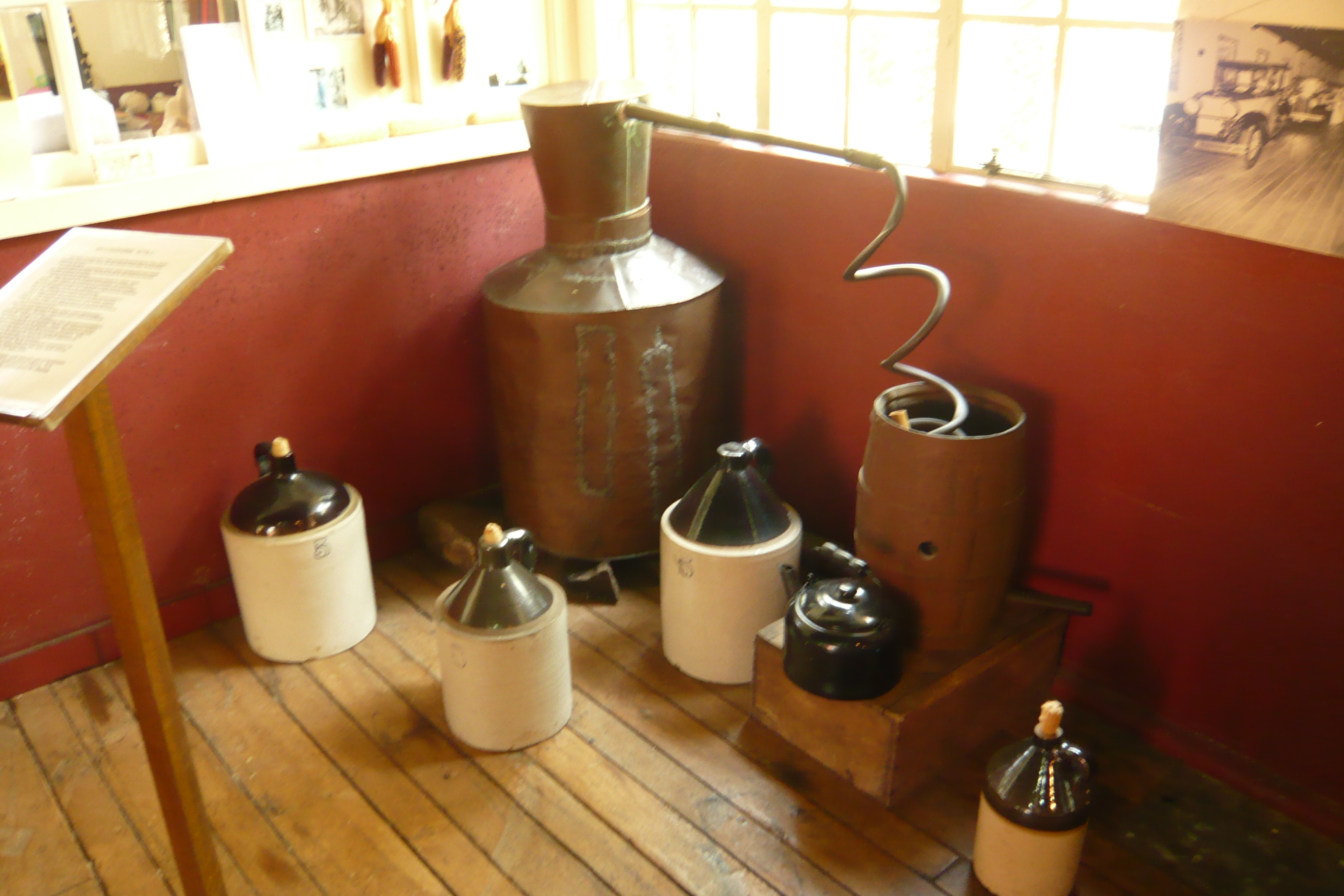 Old moonshine apparatus that was "chopped up" by law enforcement officers, Estes-Winn Antique Car Museum